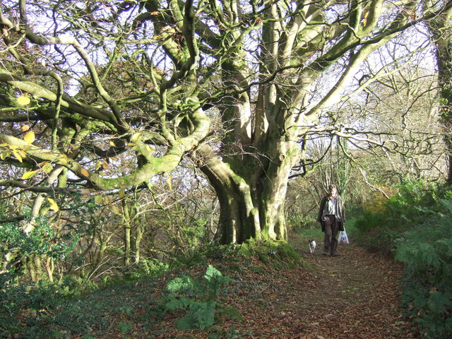 Allt Pontfaen woods The woodland here on the steep southern side of the Cwm Gwaun (valley) is maintained by the Pembrokeshire Coast National Park. There are some well-established old trees like this beech.